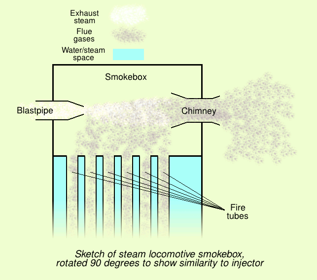 Sketch of steam locomotive smokebox, rotated 90 degrees to emphasise its similarity to the injector.